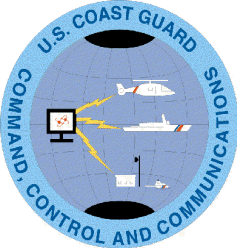 United States Coast Guard Command Control and Communications